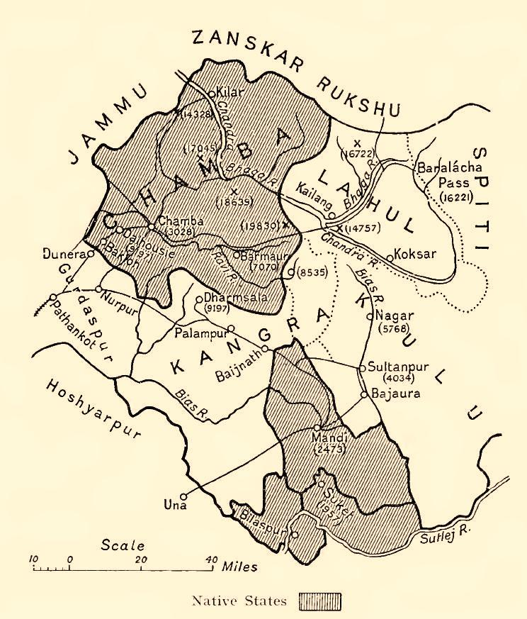 Map of some Indian princely states in the "Shimla Hill/Punjab Hill Agency" amongst them Chamba, Kangra, Bilaspur (= Khalur), Mandi, Kulu, 1911